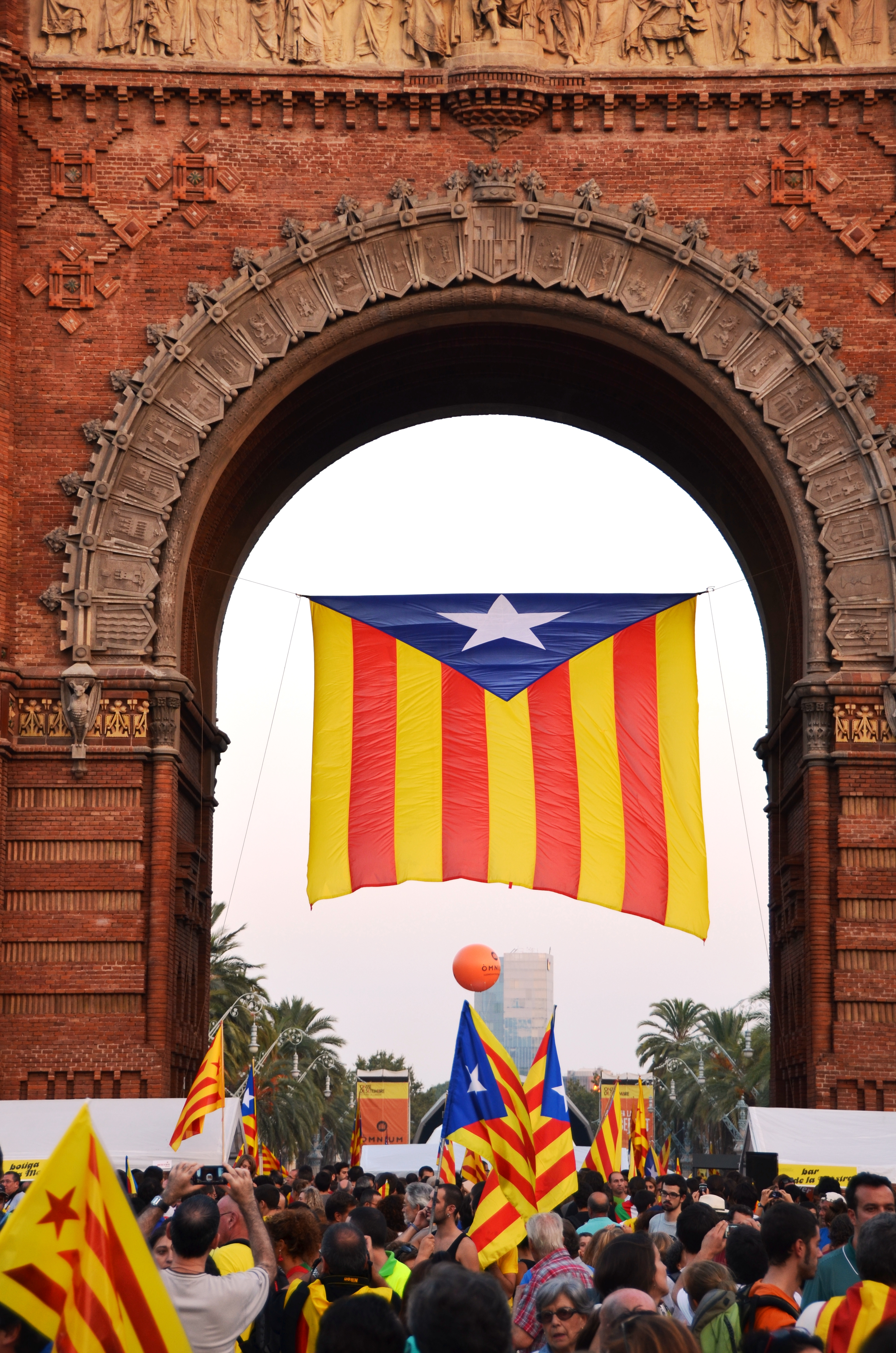 Triumphal arch of Barcelona during the 2012 Catalan independence protests.